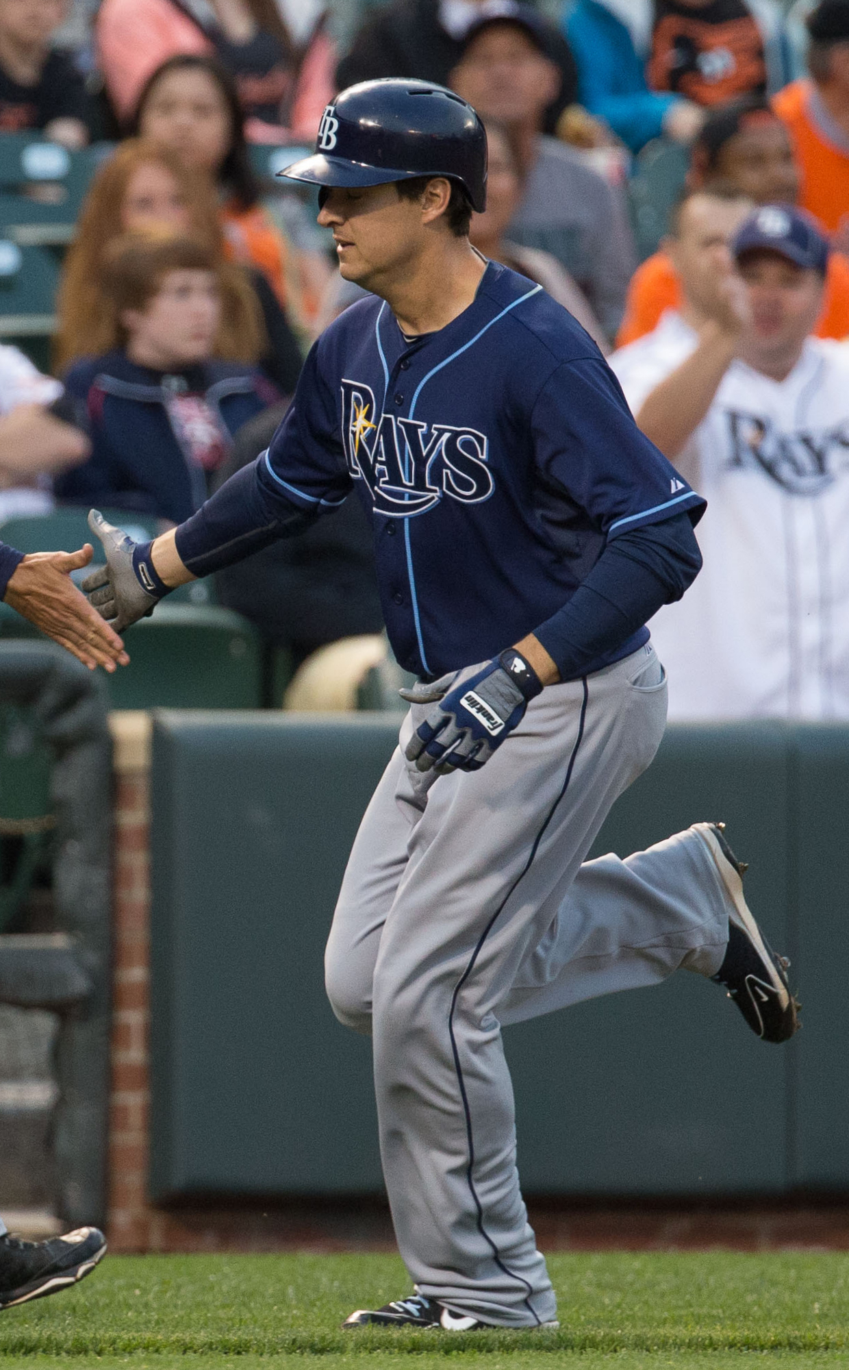 Kelly Johnson